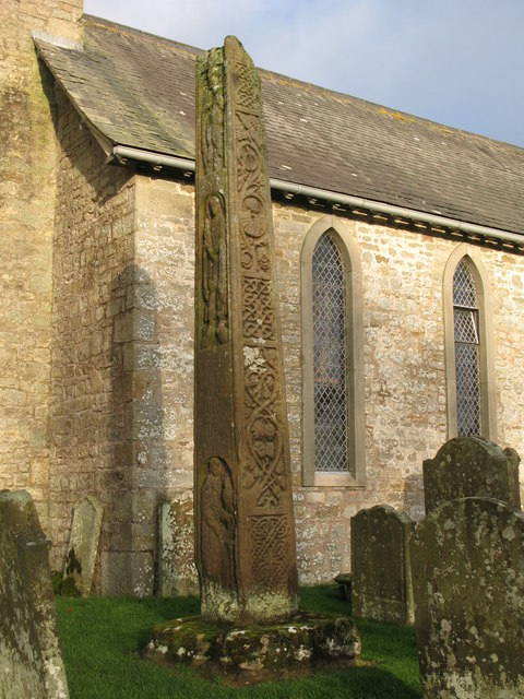 The 7th C Bewcastle Cross (2), near to Bewcastle, Cumbria, Great Britain. See NY5674 : The 7th C Bewcastle Cross . The south face of the cross has three knot panels separated by two panels with vine scroll.